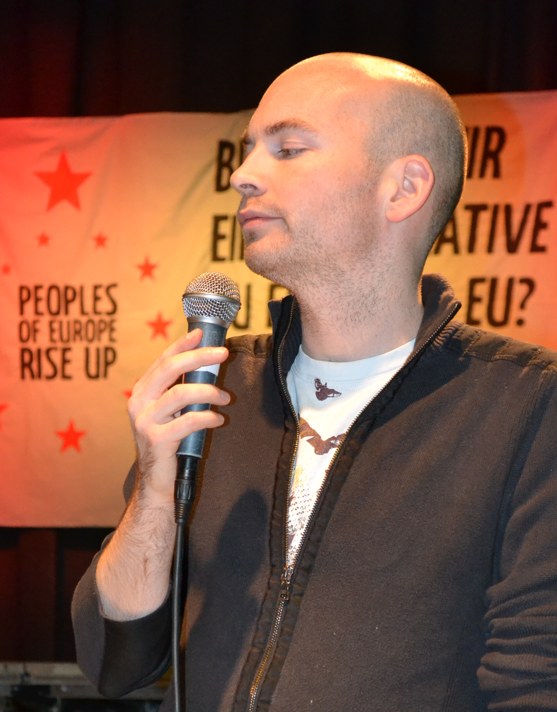 Paul Murphy in 2013.